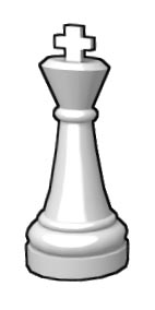 A Chess piece.